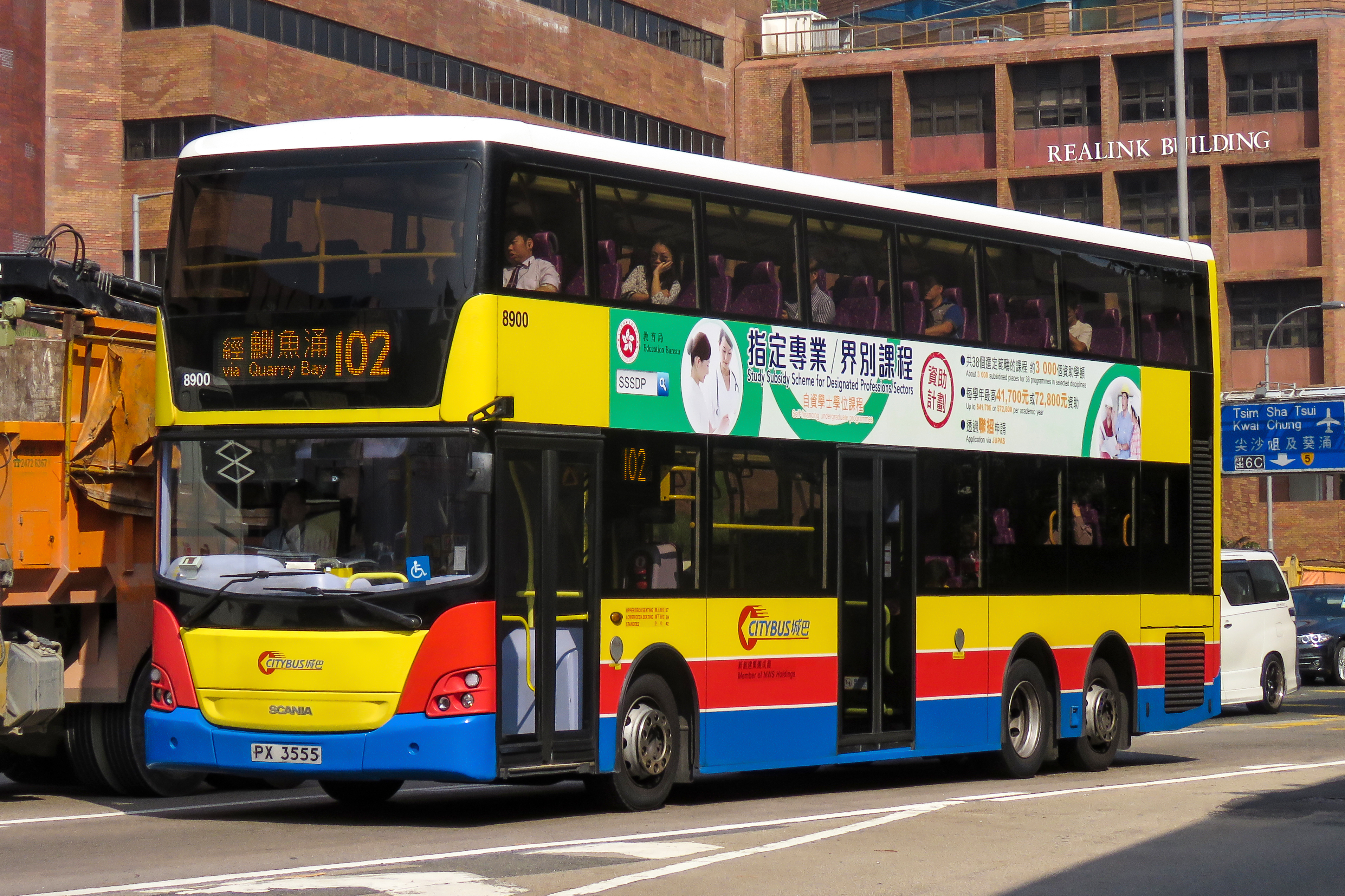 Oops... here comes a "yellow chicken" - Scania K280UD!